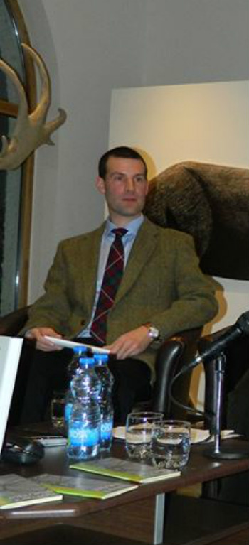 Mihailo St. Popovic speaking about his book Mara Brankovic in the Museum in Smederevo